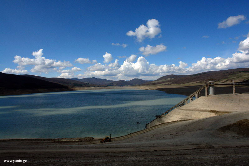 Sioni Reservoir in eastern Georgia